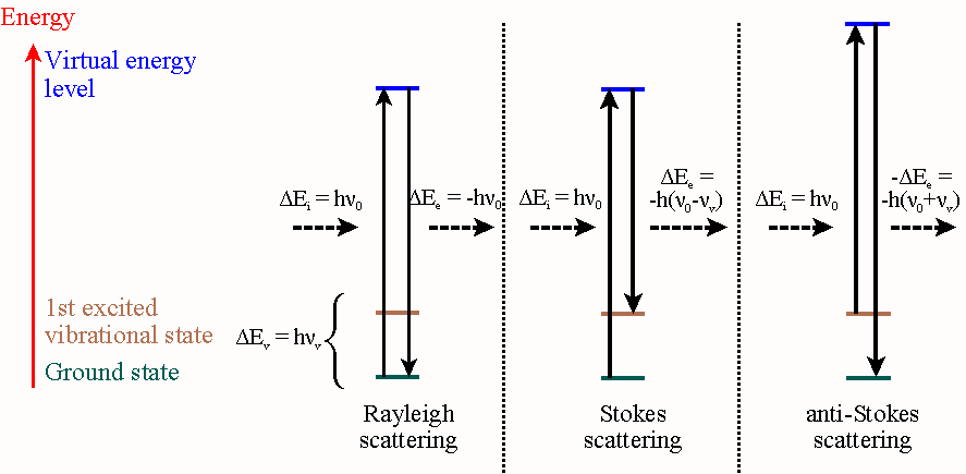 The different possibilities of visual light scattering: Rayleigh scattering (no Raman effect), Stokes scattering (molecule absorbs energy) and anti-Stokes scattering (molecule loses energy)